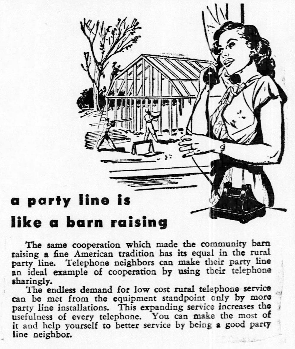 Advertisement advising party line subscribers to be courteous about their shared telephone line